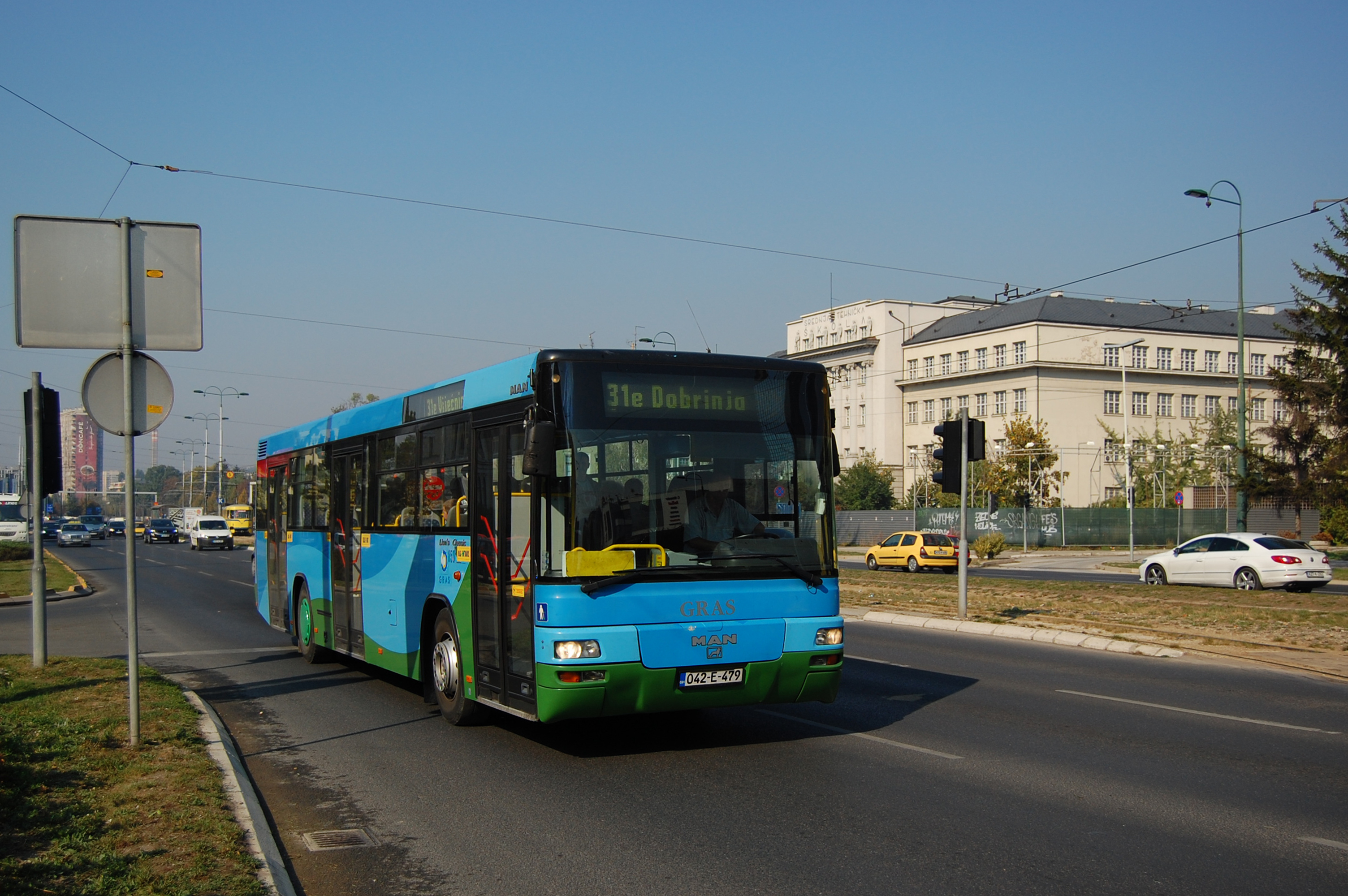 Bus #850 running eastbound past Muzeji, Line #31e Vijećnica - Dobrinja (komercijala), October 5, 2011